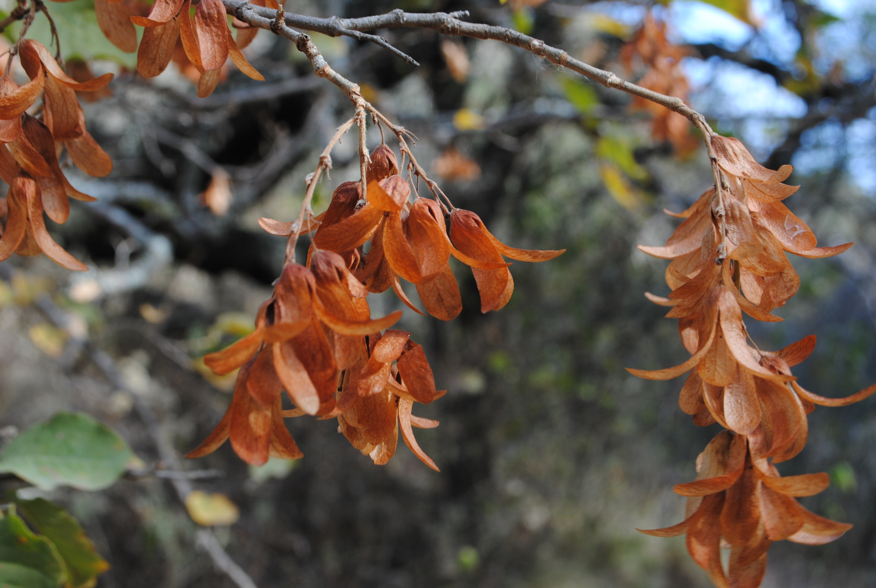 Achene fruit of Ruprechtia apetala